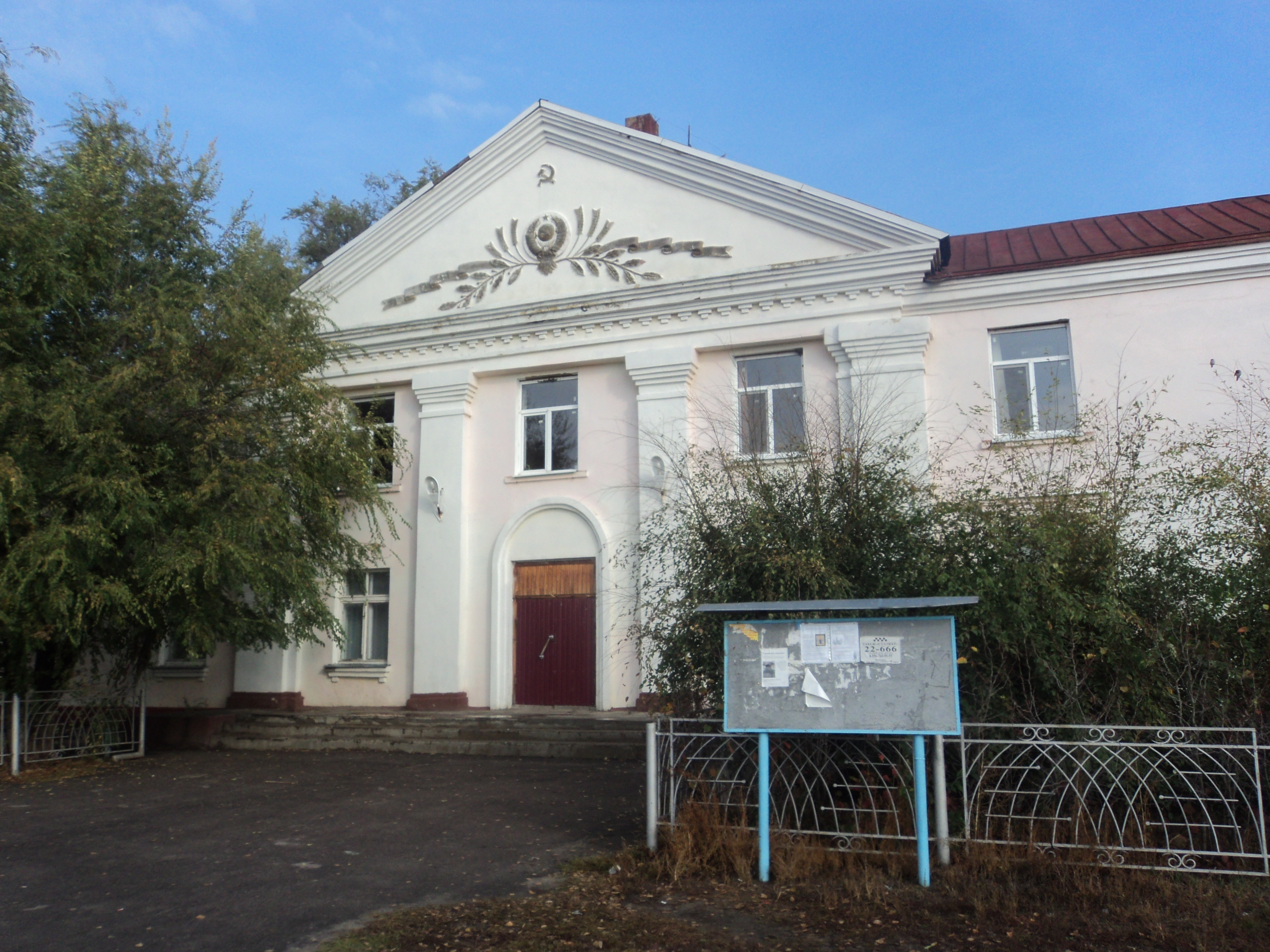 House of culture in Babka, Voronezh Oblast